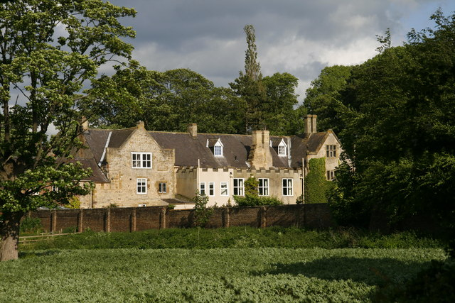 The Hall Wall Tudor manor house dating from c1570, with two acres of garden on the edge of Kirklington village.